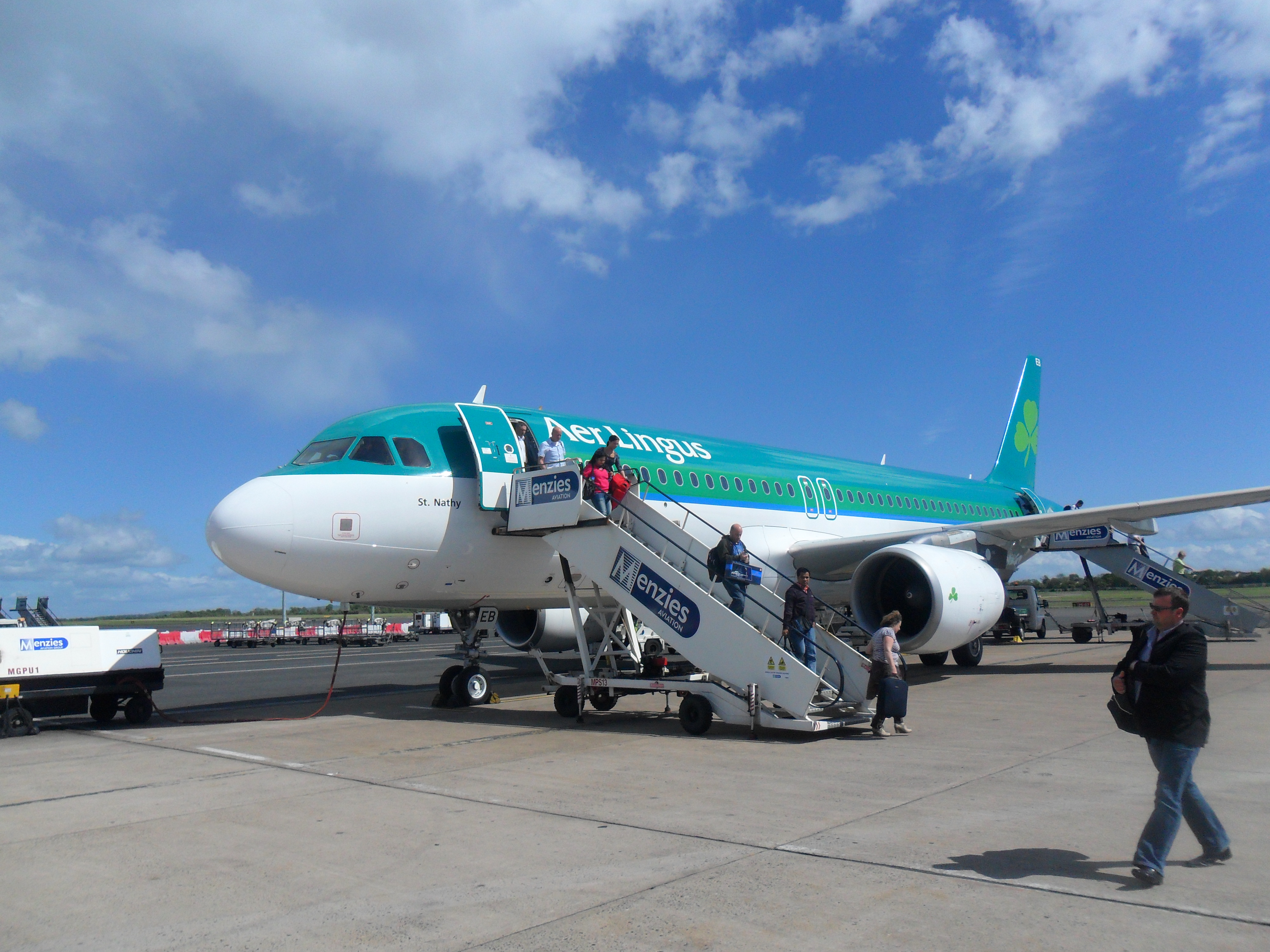 Aer Lingus A320 at Belfast International Airport just after the landing from LHR